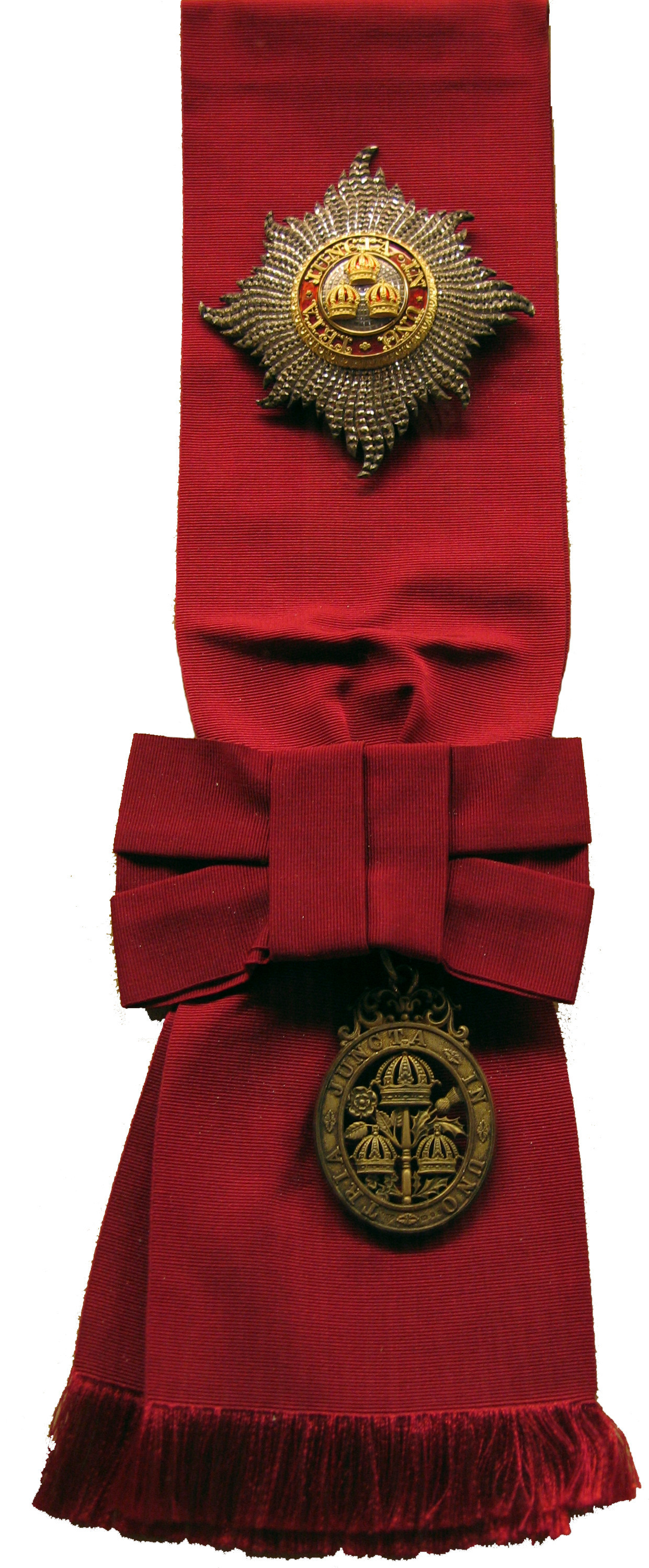 Insignia of the Order of the Bath, United Kingdom.